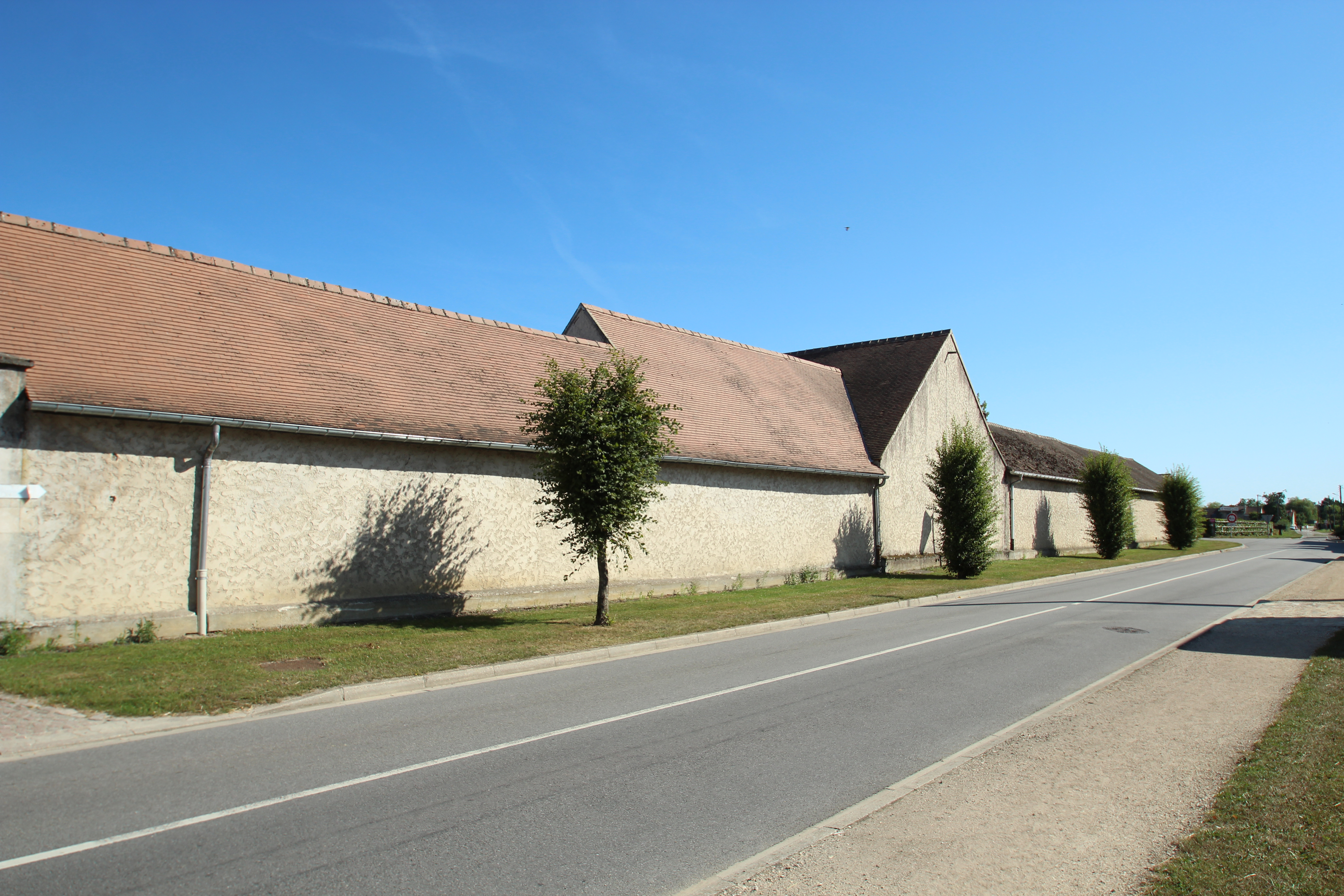 The national stud (Haras Nationaux) of Les Bréviaires, France. Object location48° 42′ 25.09″ N, 1° 48′ 48.64″ E This picture as been uploaded as part of L'Été des régions Wikipédia.